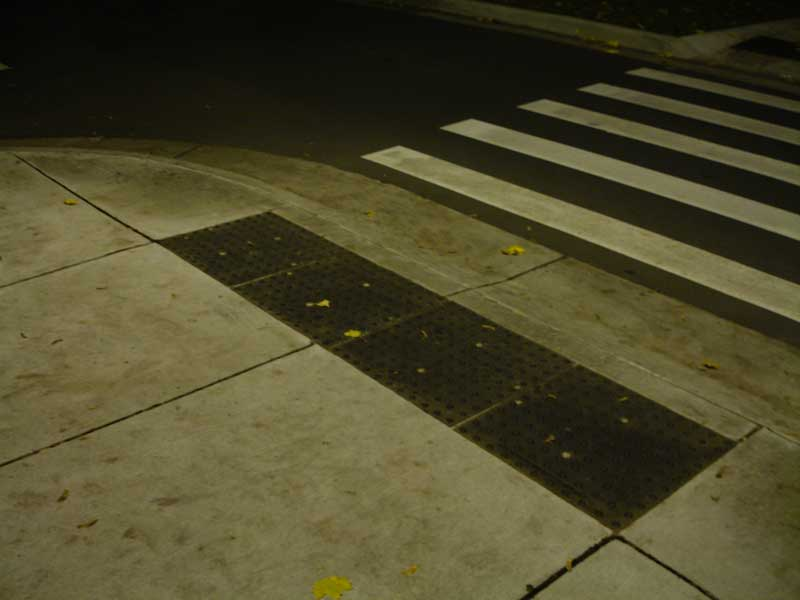 Tactile pavement tiles at the edge of a crosswalk at Michigan State University.